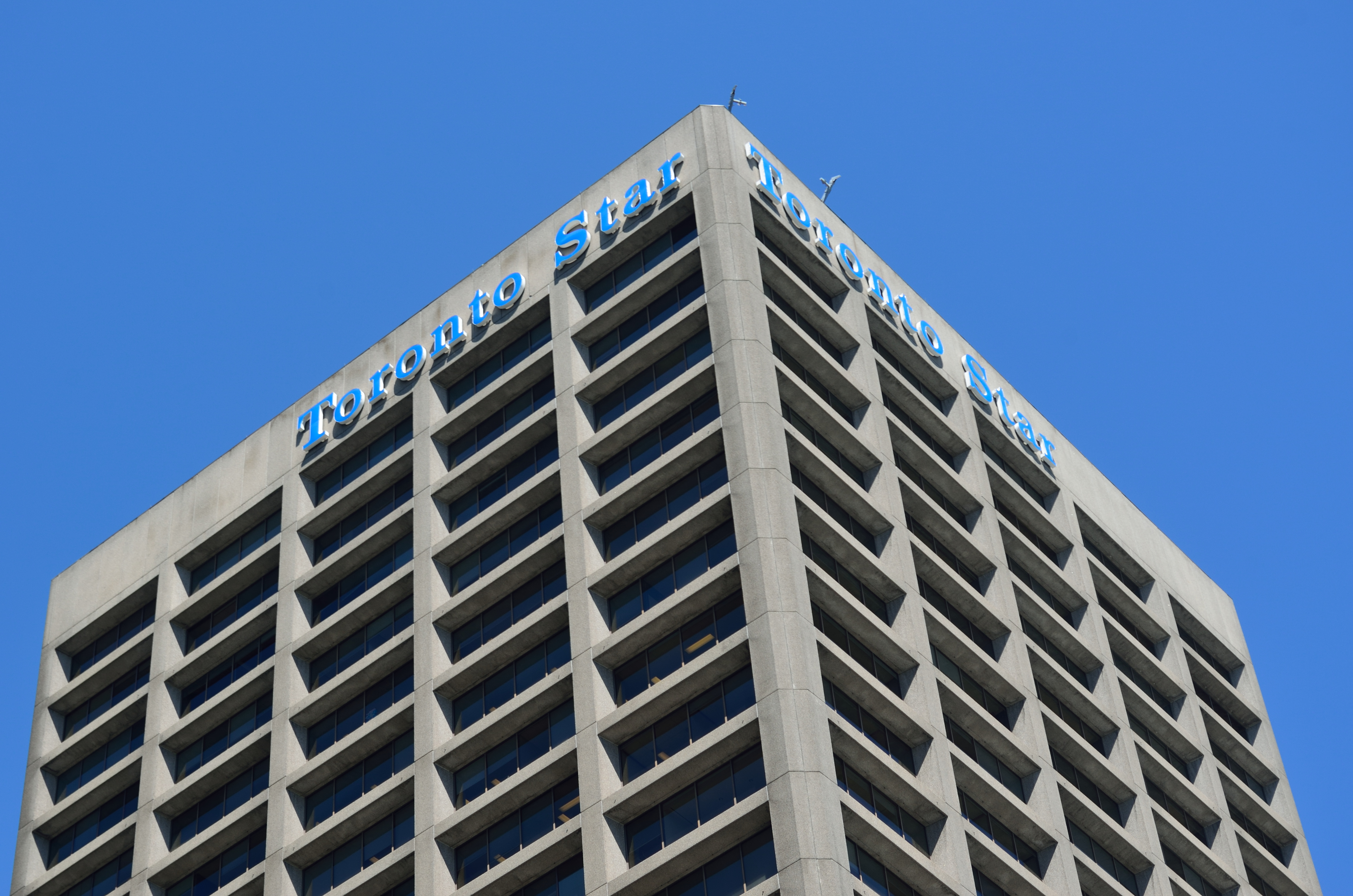 Toronto Star - One Yonge Street